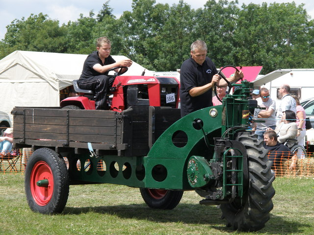 Opperman Motor Cart, Bolnhurst